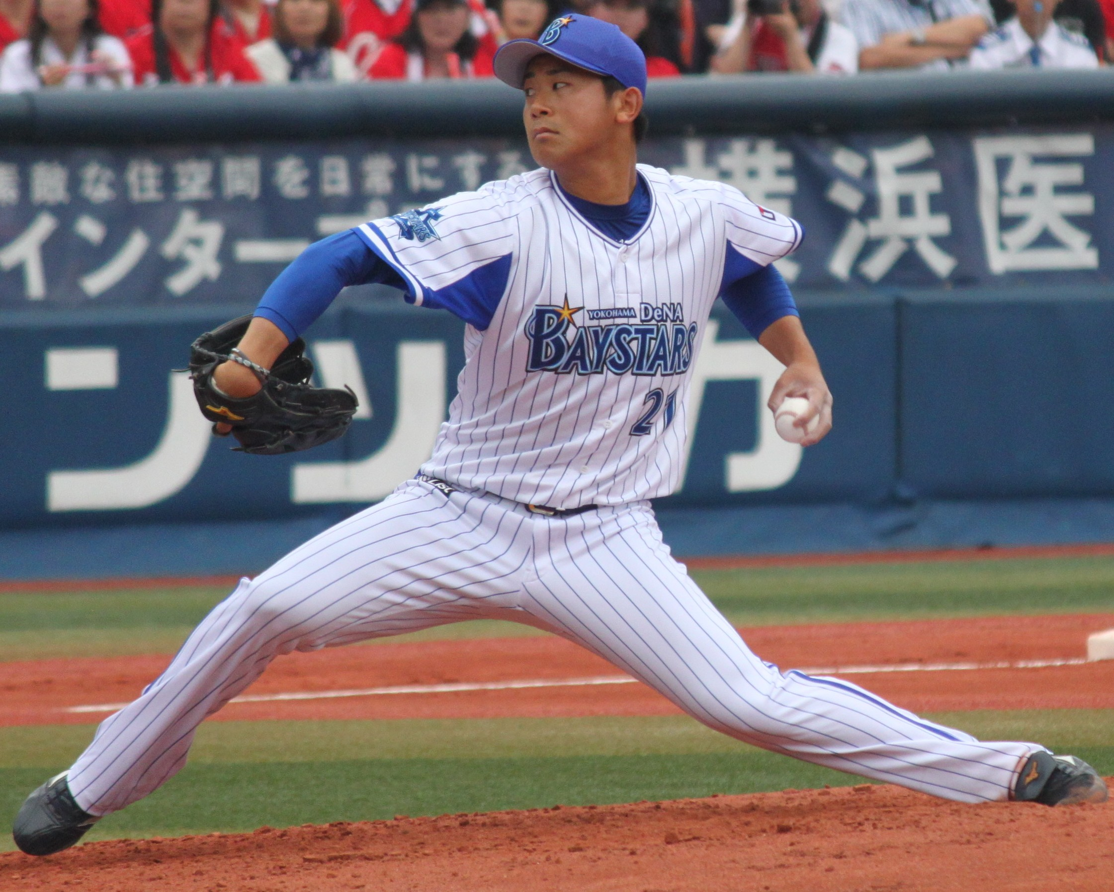 Shōta Imanaga, pitcher of the Yokohama DeNA BayStars, at Yokohama Stadium